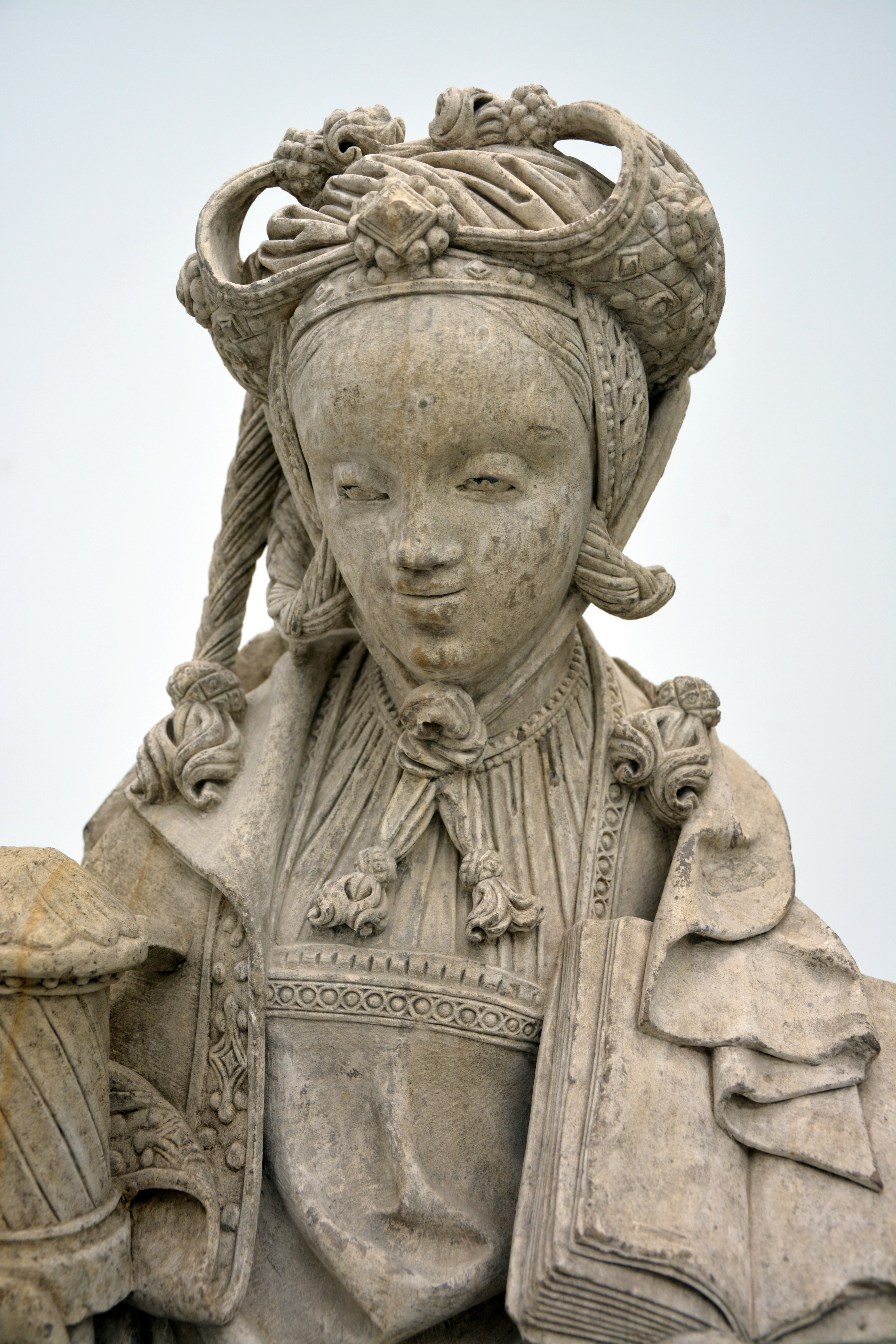 St. Mary Magdalene, probably carved circa 1520 (Avesnoi's limestone); Photography done in the Museum restoration room Museum of Fine Arts in Lille. The statue is being restored and cleaned by Julie André-Madjelessi (end of restoration work, the end of July 2016). Another statue found in the same grave ; statue of St. Agnes is at the same time and in the same place restored by Sabine Kessler. Both statues are part of a group of four sculptures discovered in 2013 in a pit in Orchies, and called "Belles du nord".